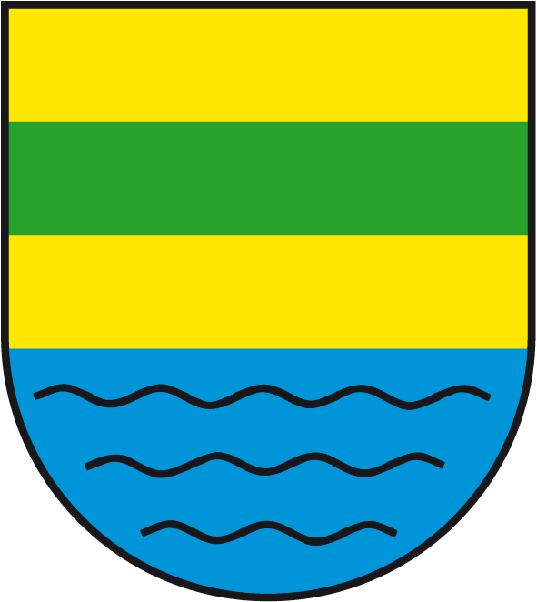 Coat of Arms of VG Bördeaue